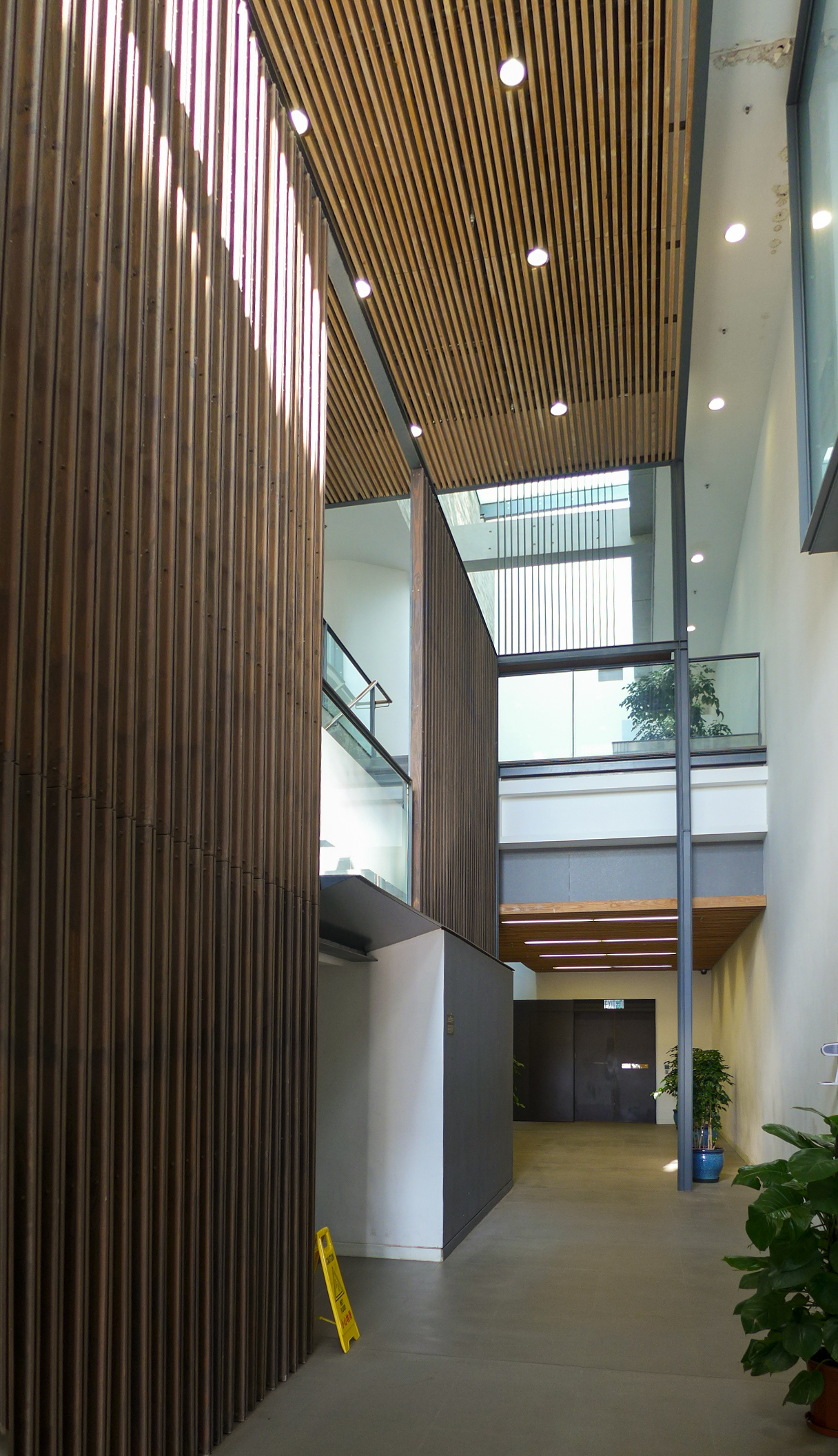 Ping Shan Tin Shui Wai Sports Centre Interior